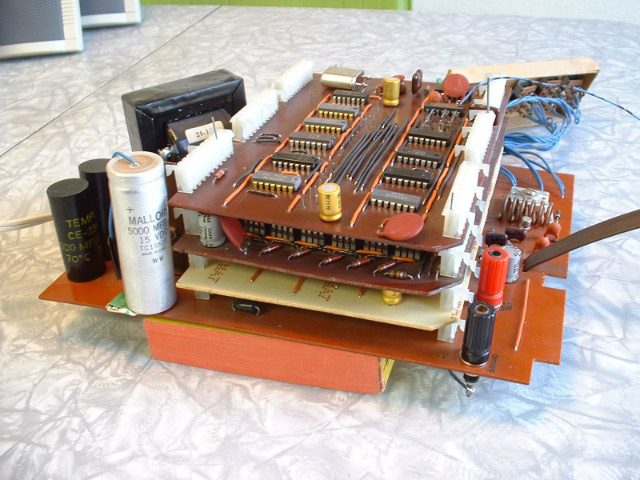 The TV Typewriter was video terminal that could display 16 lines of 32 upper case characters on a standard television. Designed by Don Lancaster, it was published in the September 1973 issue of Radio-Electronics magazine. Thousands were built, this one by Bob Rethemeyer. The bare circuit boards could be ordered but Bob fabricated his own boards. The lower board is the mainframe with the power supply and RF modulator. Above that is the cursor board. The cursor keeps track of where the next character goes. The middle board has 512 six-bit words of screen memory. The top board generates all of the timing signals. These boards could be stacked in any order. The control switches are in the background.